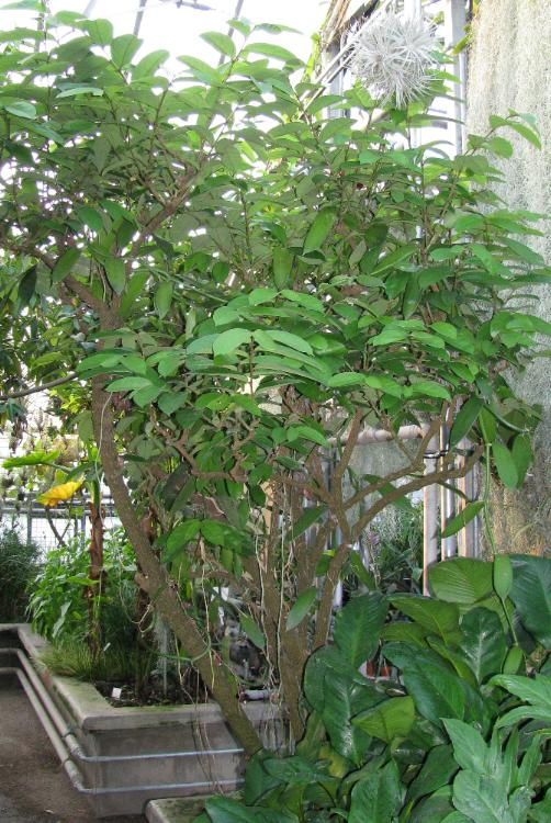 Aristolochia arborea tree, Botanical garden Heidelberg